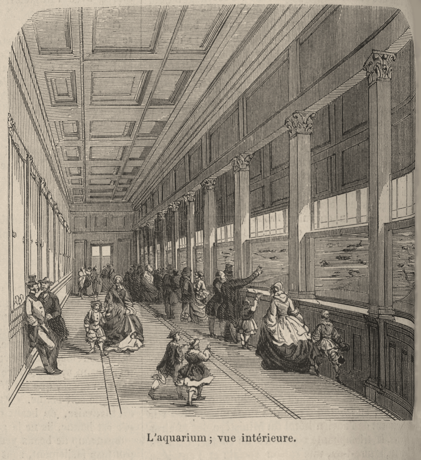 The Jardin zoologique at the Bois de Boulogne included an aquarium that housed both fresh and salt water sea animals. The interior is depicted here.